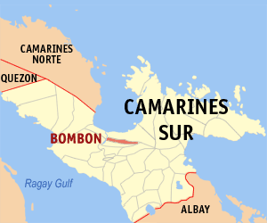 Map of Camarines Sur showing the location of Bombon